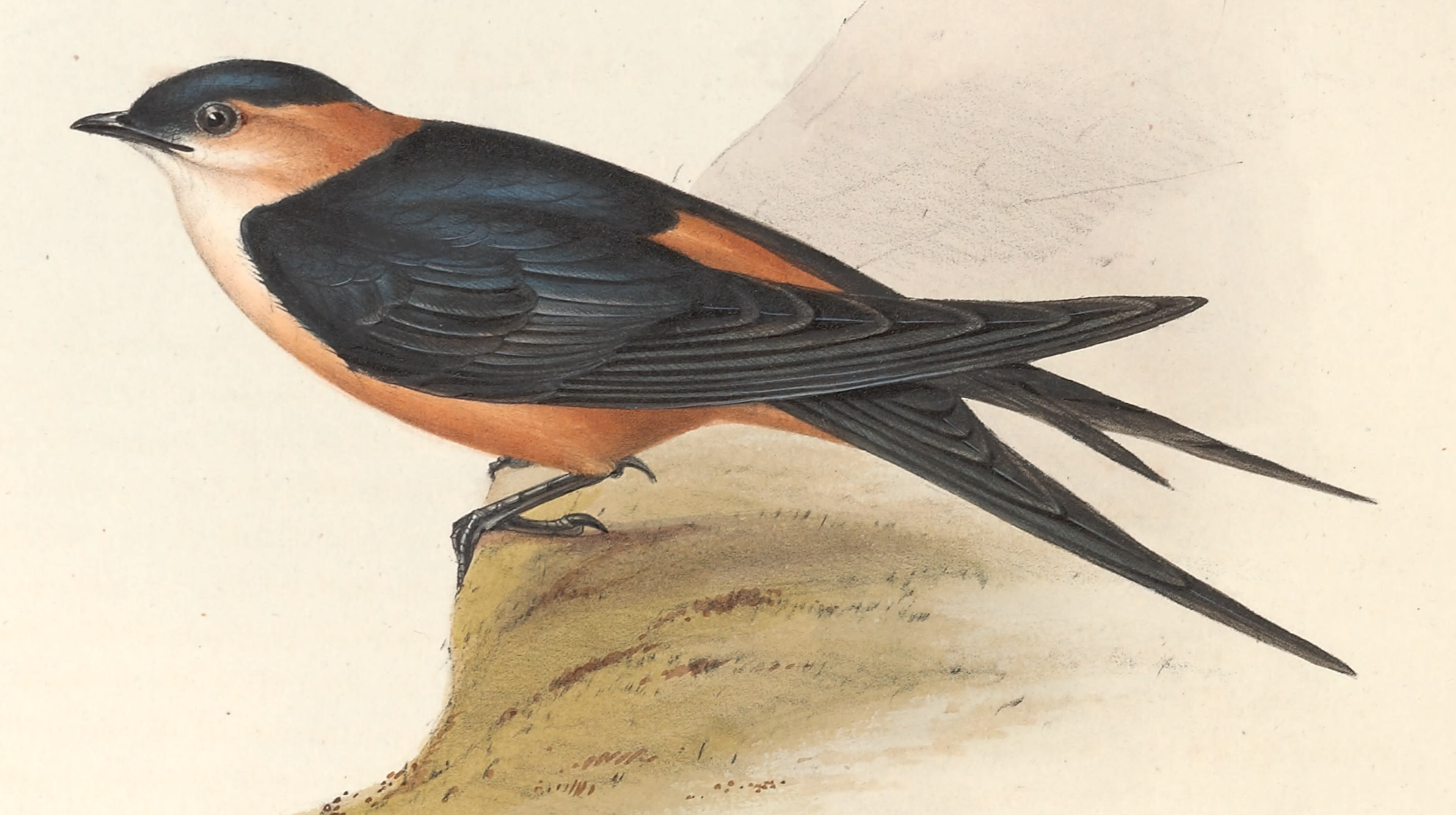 Cecropis daurica (rufula)